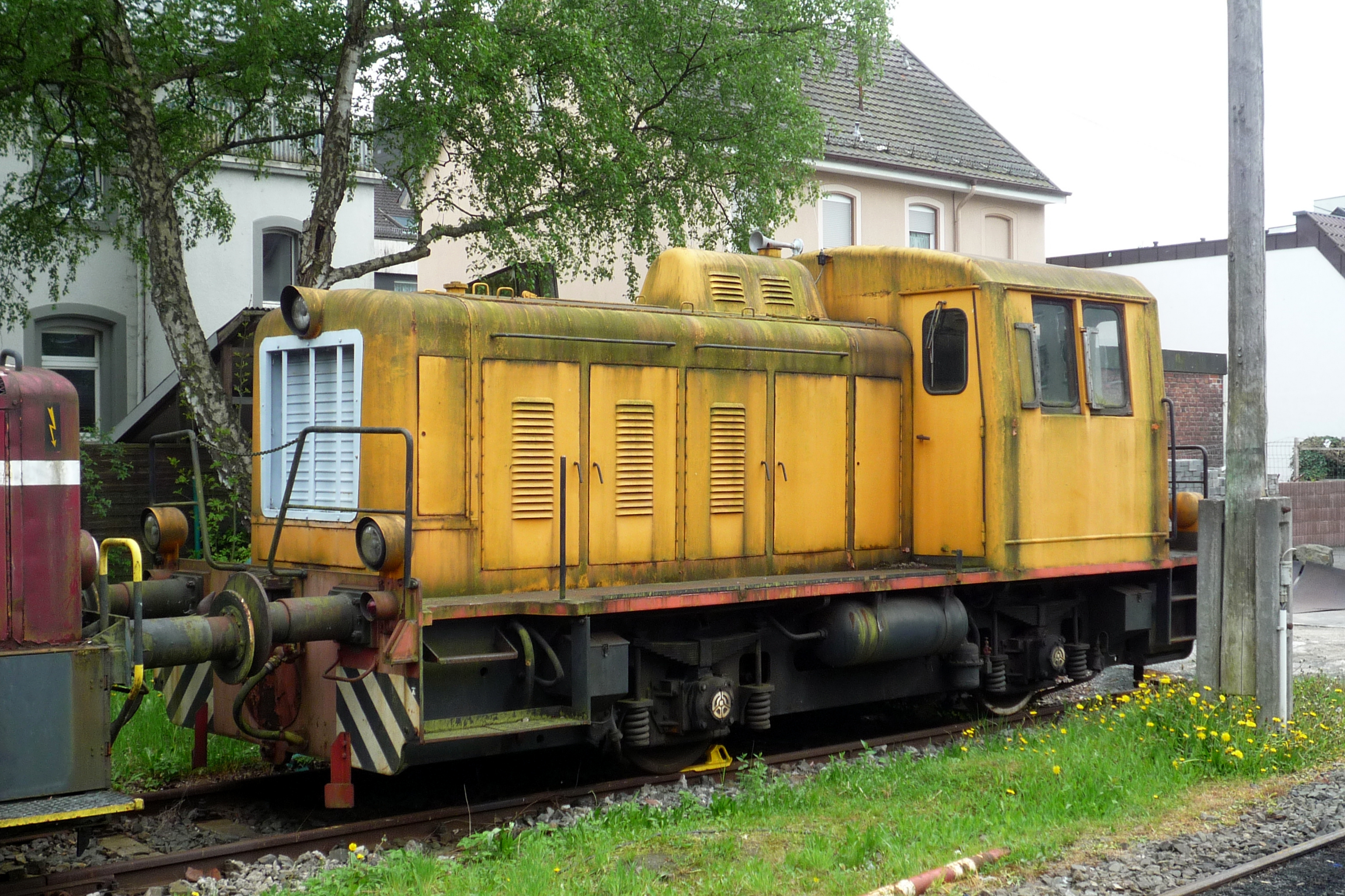 Kaluga TGK 2-E 1 in the Eisenbahnmuseum Dieringhausen